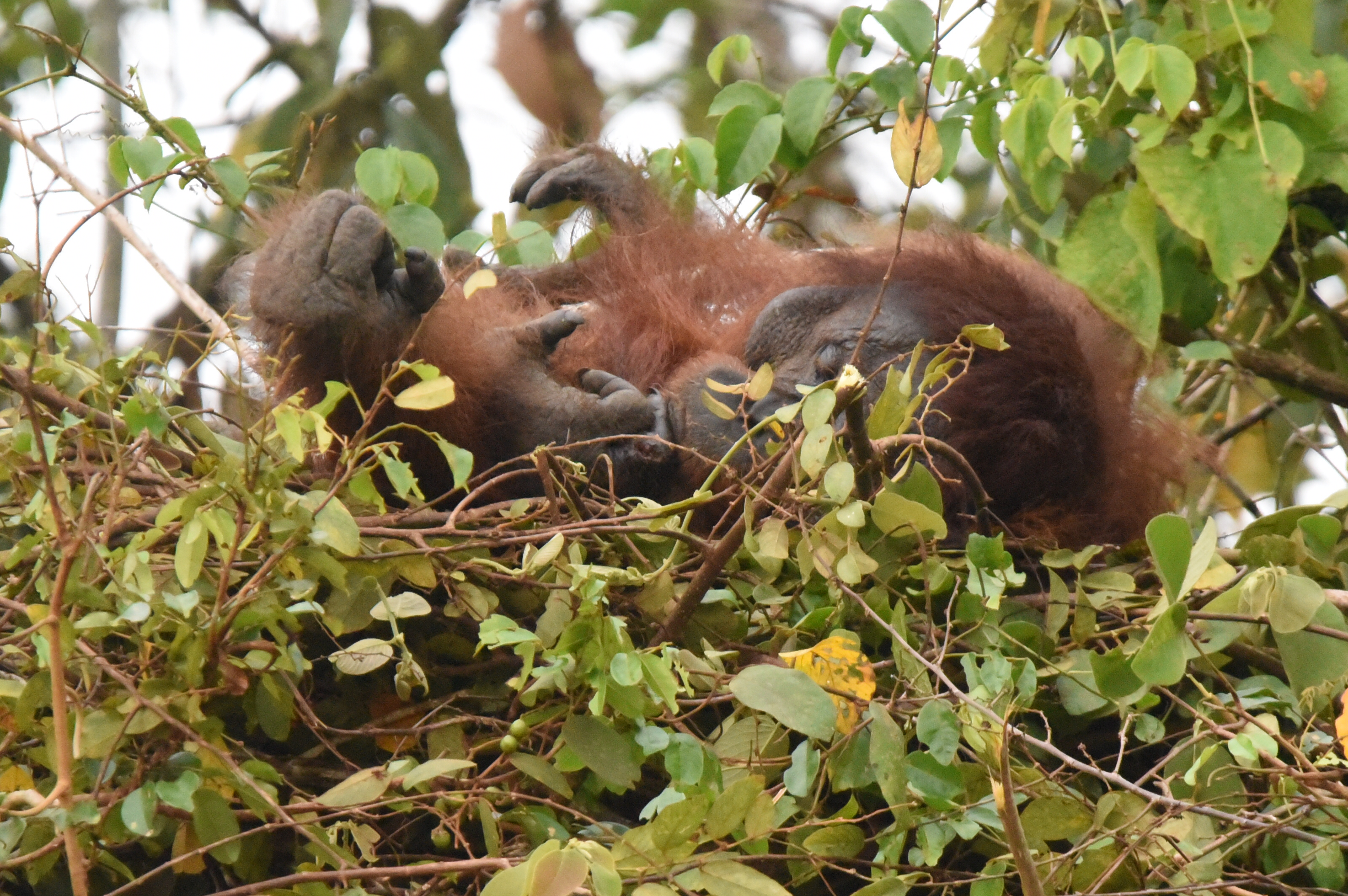 taken in Borneo in 2018, this Orang was spotted from the river, it had a large cut to his finger and he was in his nest trying to look after it.